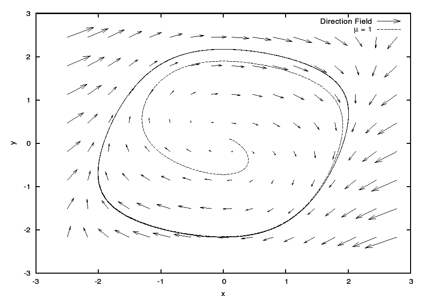 A plot of the phase portrait of the undriven van der Pol oscillator at mu = 1 with limit cycle and slope field for the system. Made with gnuplot.